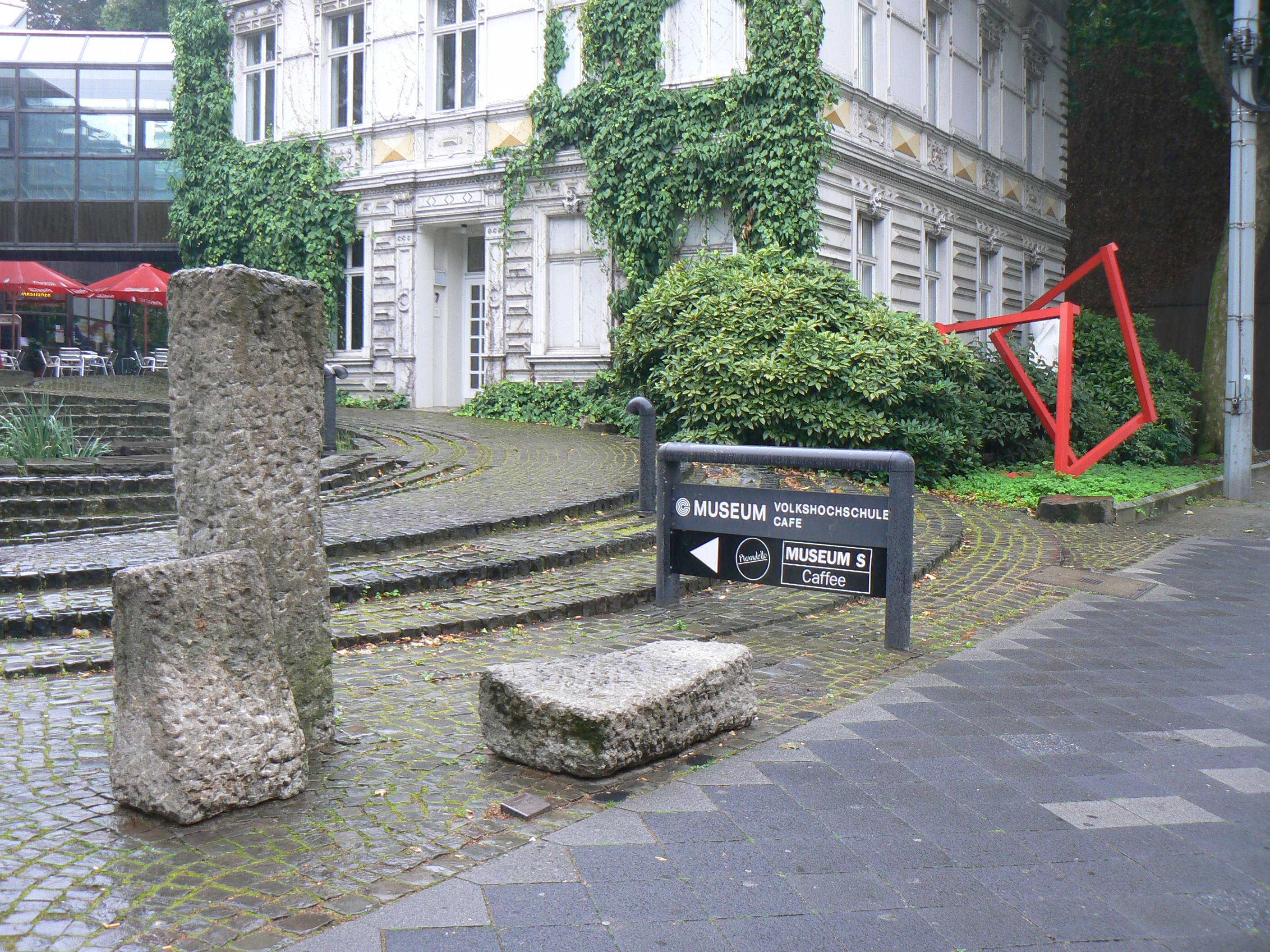 Sculpture Steinskulptur (1983/4) by Rolf Jörres and the entrance of the Städt. Museum in Gelsenkirchen-Buer/Germany